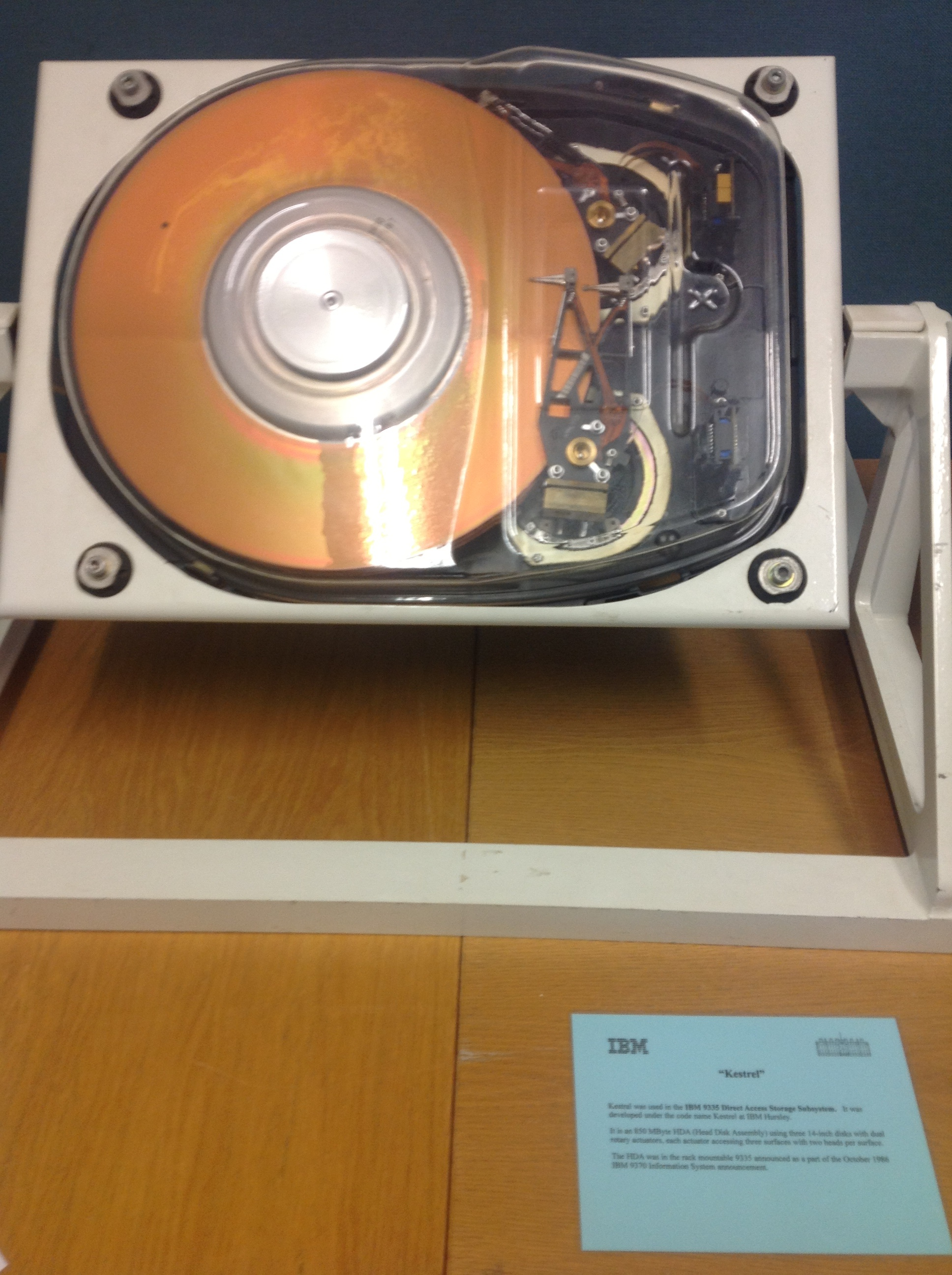 IBM HDD 9335, in IBM Hursley museum, UK